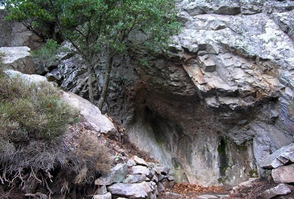 Grotta di San Cerbone - Elba